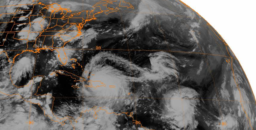 GIBBS Satellite image taken on September 1, 1979. From left to right, Tropical Storm Elena is located in the Gulf of Mexico, Hurricane David is centered over Hispaniola, Hurricane Frederic is located near 15°N 45°N, a tropical depression is dissipating south of Newfoundland, and another unnumbered tropical depression is adjacent to Africa near the coastlines of Senegal and Mauritania.